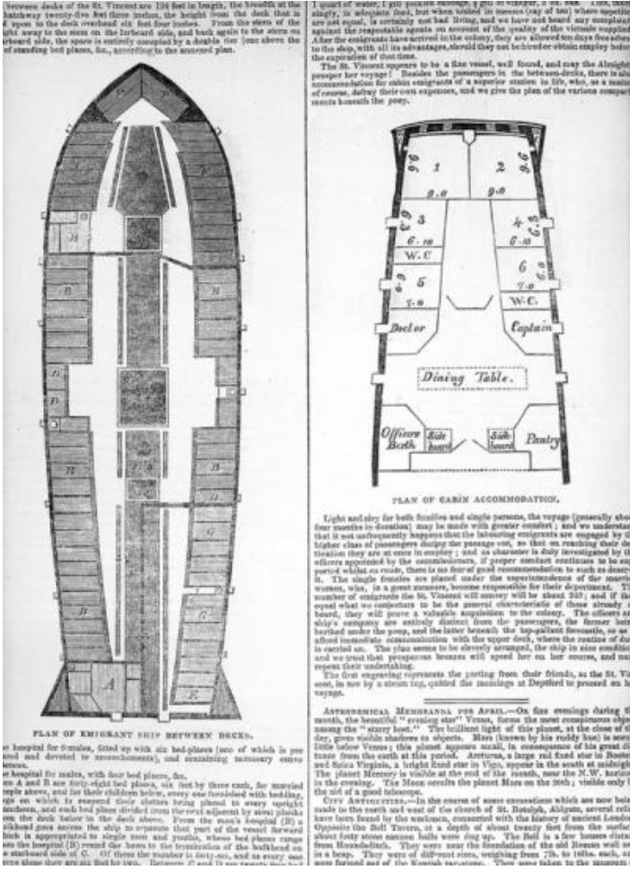 A plan of the emigrant ship St Vincent (1829) as fitted out for emigrants to Australia in 1844.